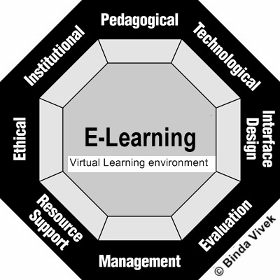 The E-Learning and Virtual Learning Environment (VCL)framework has the potential to provide guidance in - planning and designing e-learning and blended-learning materials, - organizing resources for e-learning environment and blended-learning materials, - designing distributed learning systems, corporate universities, virtual universities and cyberschools, designing LMS, LCMS and comprehensive authoring systems (e.g., Omni), - evaluating e-learning, blended-learning courses, and programs, - evaluating e-learning authoring tools/systems, VLE, LMS and LCMS, The pedagogical dimension of E-learning refers to teaching and learning. This dimension addresses issues concerning content analysis, audience analysis, goal analysis, media analysis, design approach, organization and methods and strategies of e-learning environments. The technological dimension of the E-Learning Framework examines issues of technology infrastructure in e-learning environments. This includes infrastructure planning, hardware and software. The interface design refers to the overall look and feel of e-learning programs. Interface design dimension encompasses page and site design, content design, navigation, and usability testing. The evaluation for e-learning includes both assessment of learners and evaluation of the instruction and learning environment. The management of e-learning refers to the maintenance of learning environment and distribution of information. The resource support dimension of the E-Learning Framework examines the online support and resources required to foster meaningful learning environments. The ethical considerations of e-learning relate to social and political influence, cultural diversity, bias, geographical diversity, learner diversity, information accessibility, etiquette, and the legal issues. The institutional dimension is concerned with issues of administrative affairs, academic affairs and student services related to e-learning.